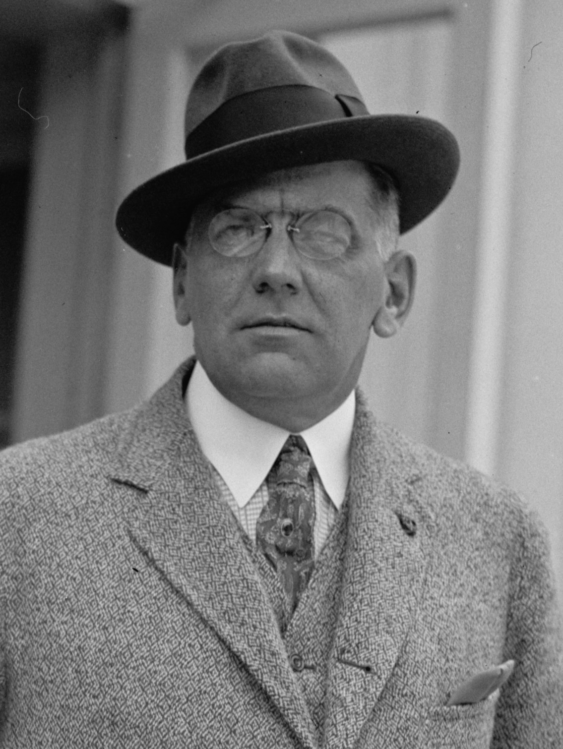 Title: Vernon Howe Bailey, 5/15/24 Abstract/medium: National Photo Company Collection (Library of Congress) Physical description: 1 negative